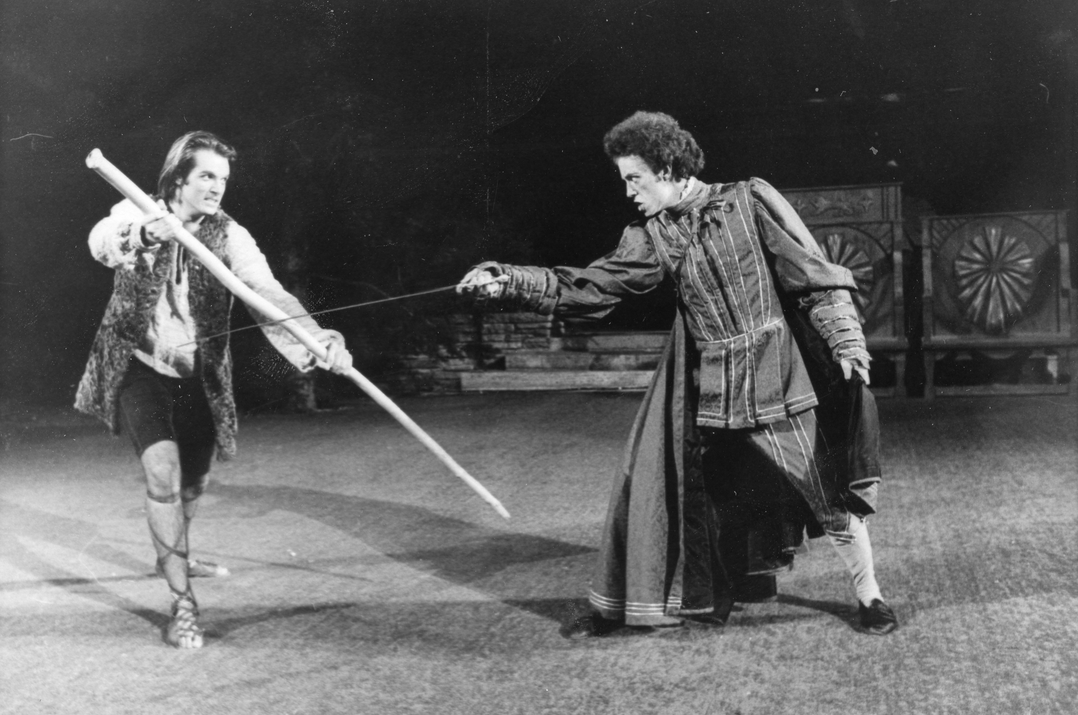 Cymbeline, Colorado Shakespeare Festival, 1975, Mary Rippon Outdoor Theatre